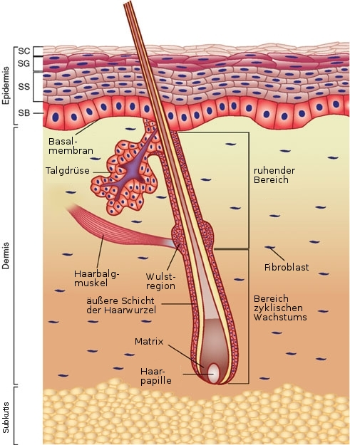 Anatomy of the skin. Skin is composed of three layers, starting with the outermost layer: the epidermis, dermis, and hypodermis. Epidermis is a stratified squamous epithelium that is divided into four layers, starting with the outermost layer: stratum corneum (SC), stratum granulosum (SG), stratum spinosum (SS), and stratum basale (SB). Outer root sheath of the hair follicle is contiguous with the basal epidermal layer. Stem cell niches include the basal epidermal layer, base of sebaceous gland, hair follicle bulge, dermal papillae, and dermis.